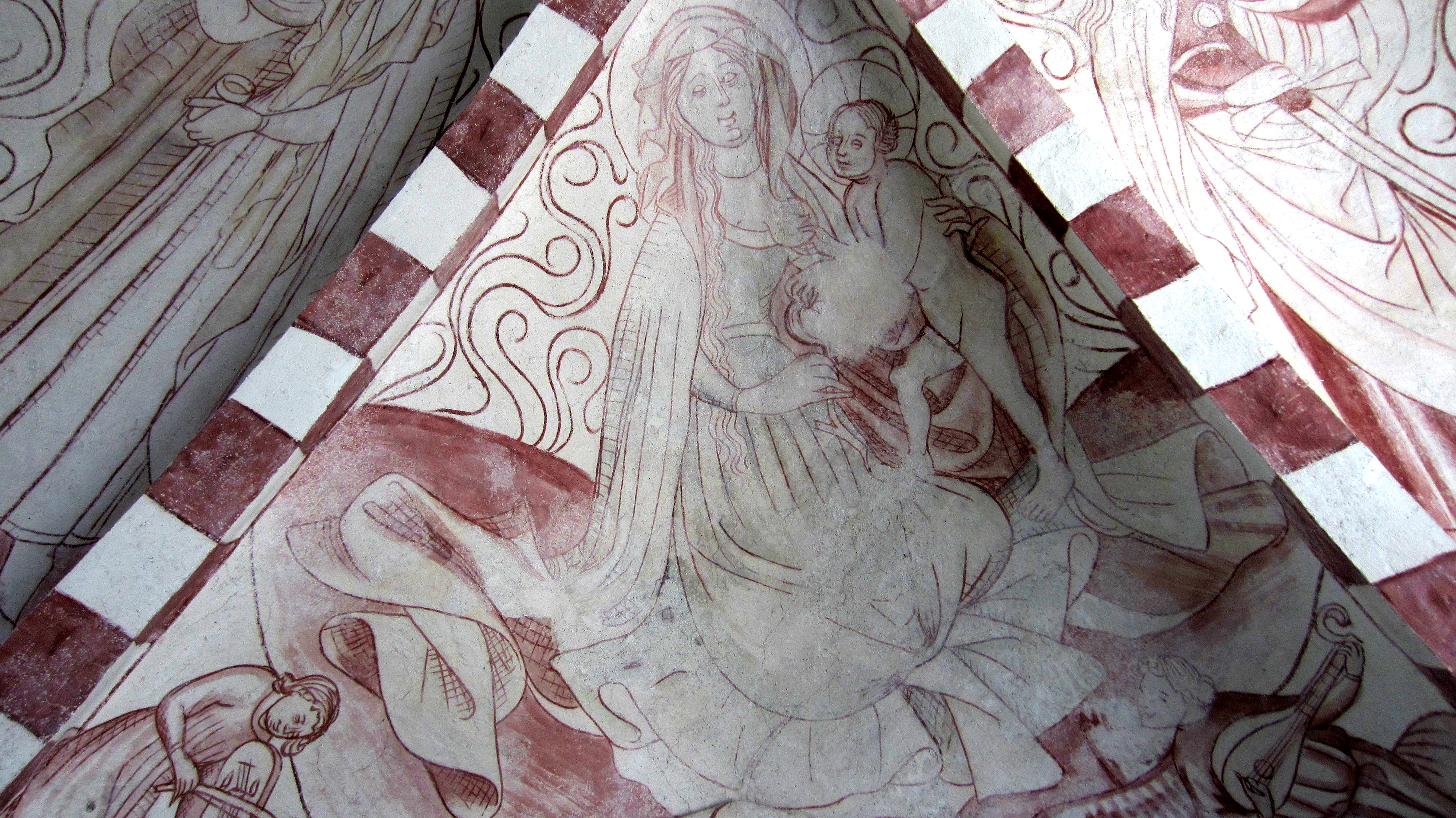 Wall paintings from about 1440 in Brönnestad church, Scania, Sweden.